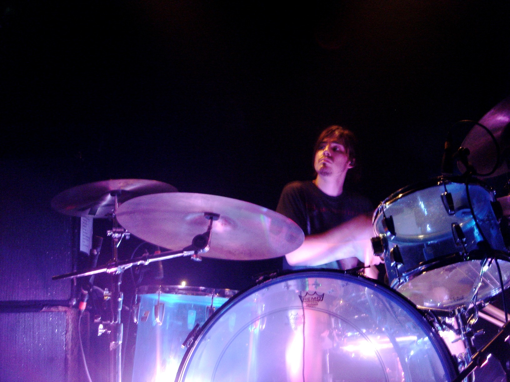 Black Rebel Motorcycle Club live at the Social in Orlando FL. 6/10/07